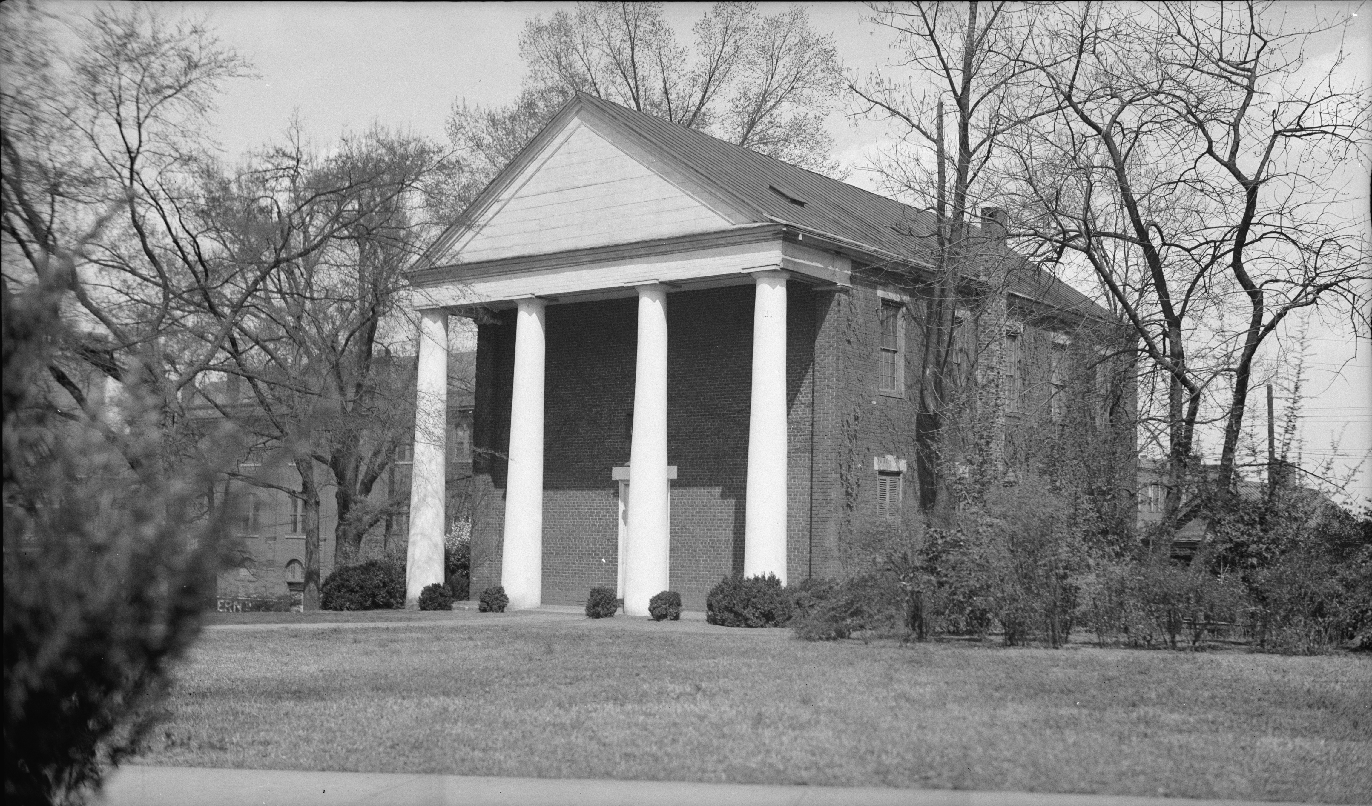 University of Georgia, Phi Kappa Hall, Broad & Jackson Streets, Athens, Clarke County, GA